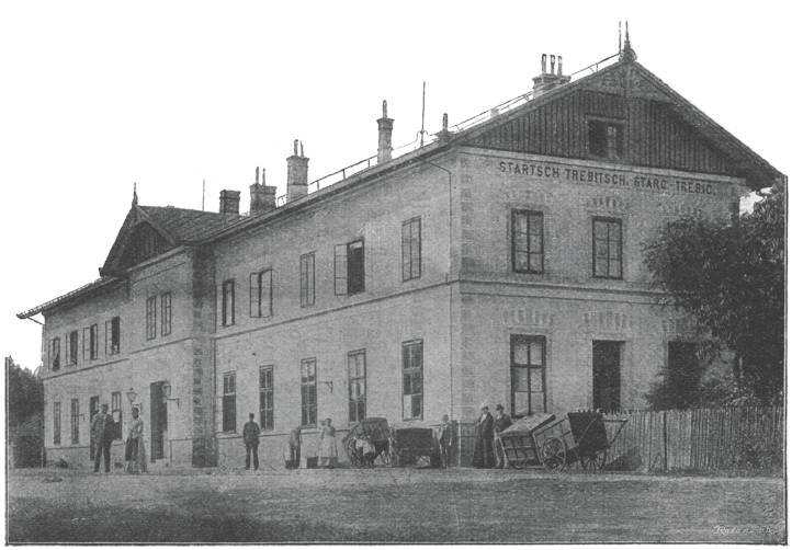 Railway station in Stařeč near Třebíč about year 1906.